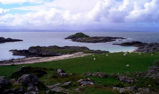 The coast at Port nam Murrach, near Arisaig. A peaceful & secluded little cove, well off the beaten track, with stunning views across to Ardnamurchan and the Isles of Eigg & Rum.